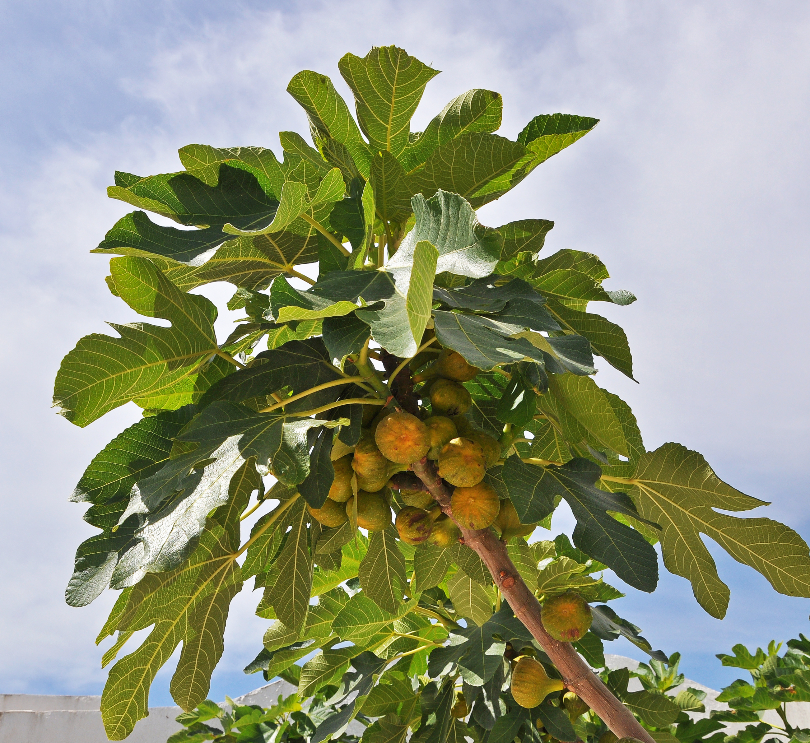 Common fig